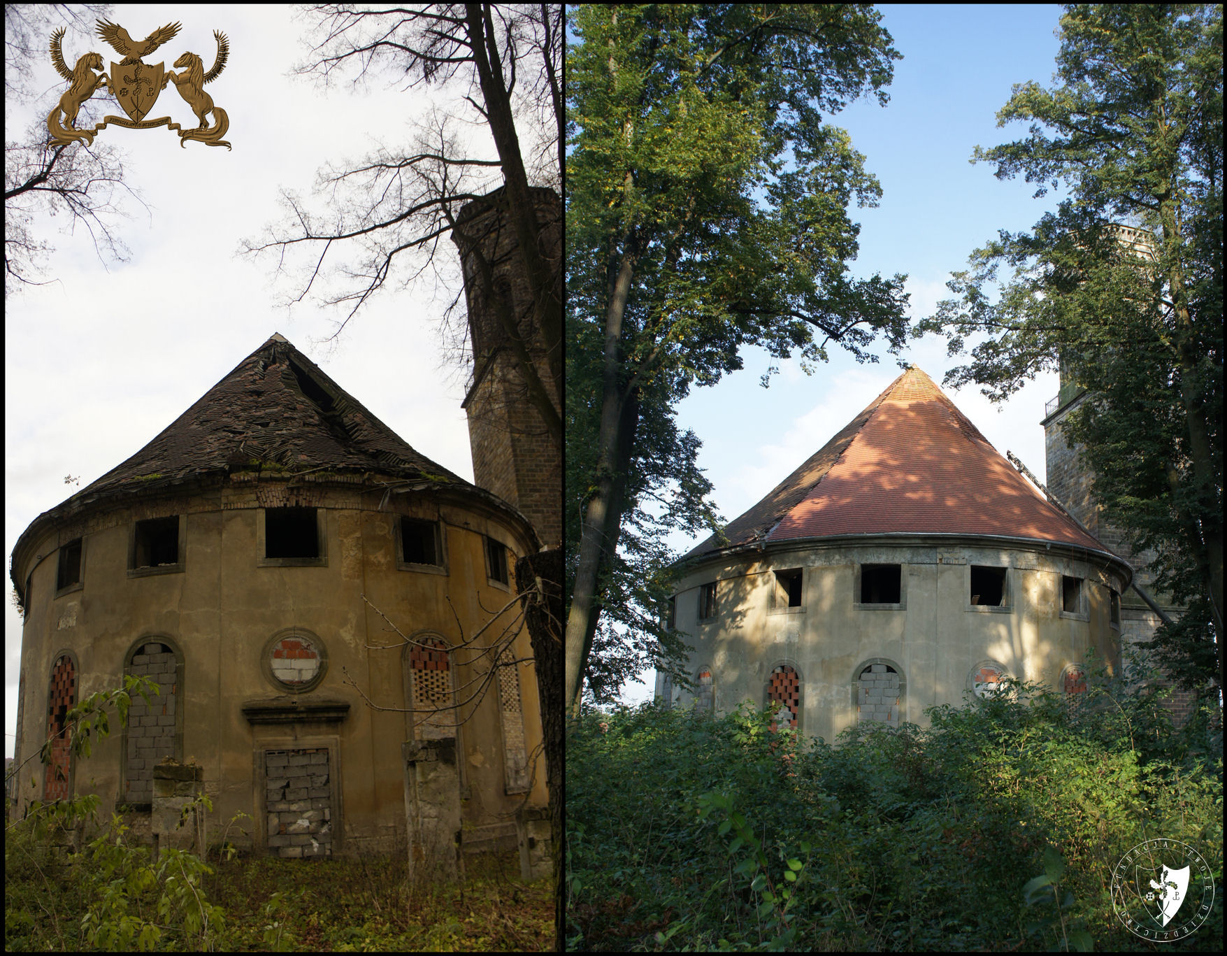 West side of Pearl in 2013 and in 2014.